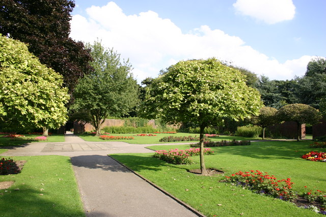 Sherdley Park Gardens Once again stunning views of the lovely gardens looked after by council staff at Sherdley Park St.Helens